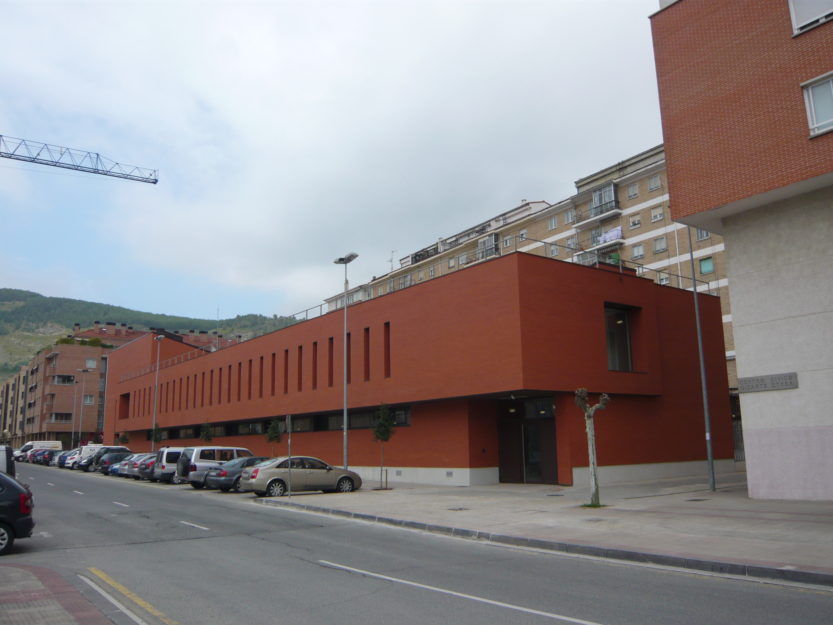 Health Center of Ansoain, Navarra